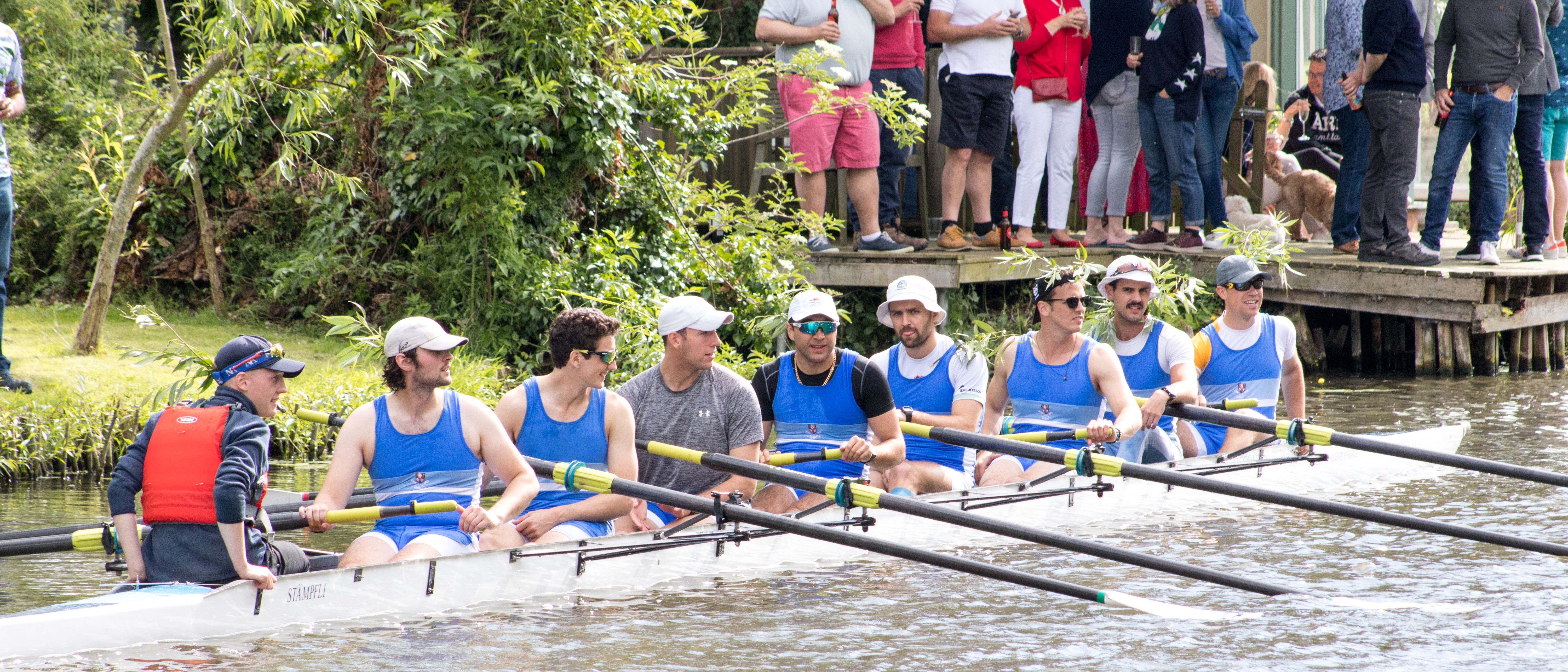 Hughes Hall First Mens Crew, May Bumps 2019 having just won blades. Cambridge Blue Boat President for 2019, Dara Alizadeh, can be seen in 5 seat.